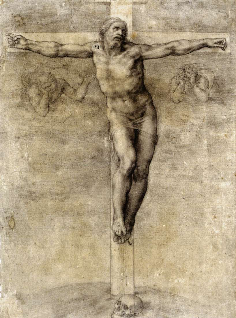 Christ on the Cross